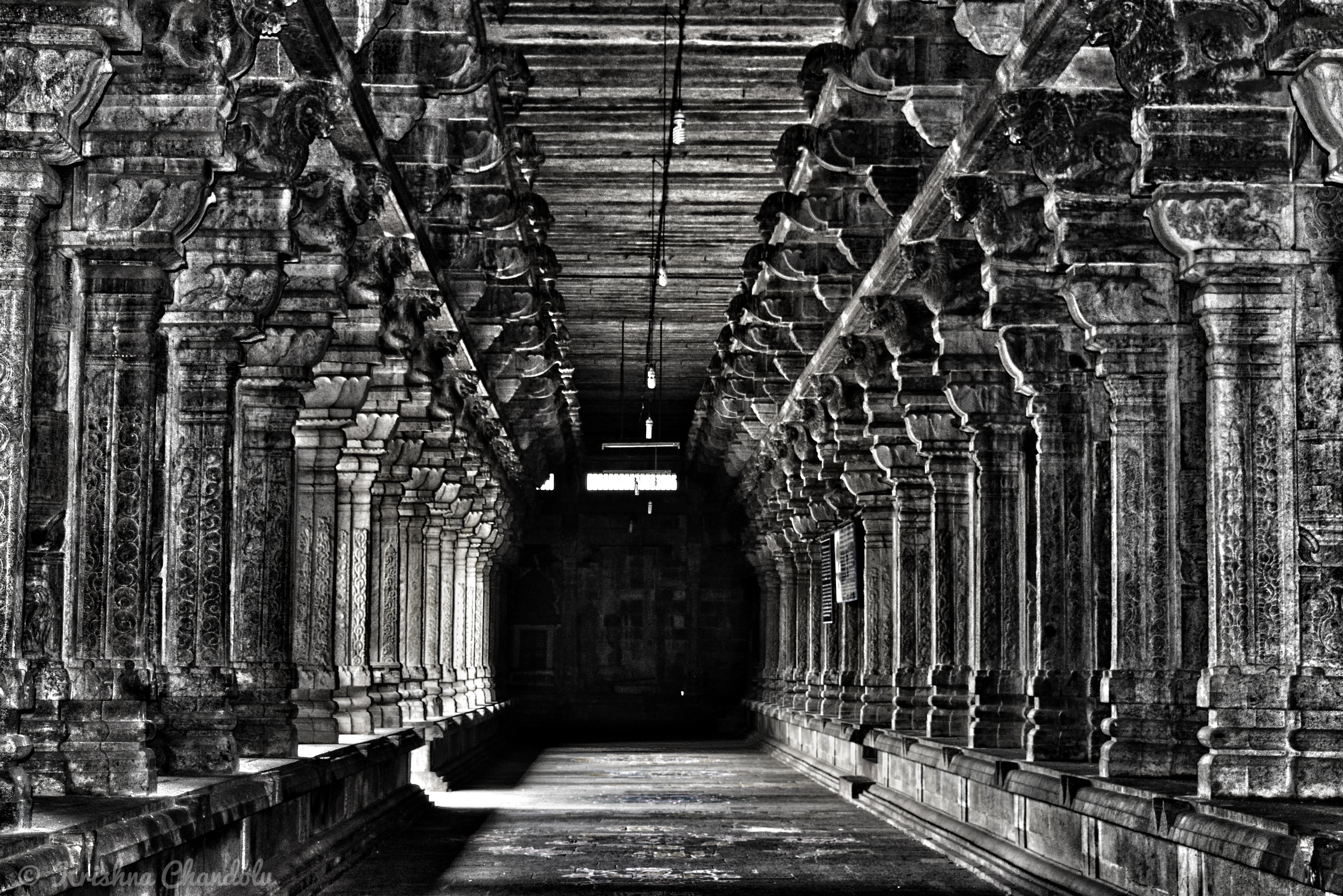 . "hallway with a thousand pillars", which was built by the Vijayanagar Kings.